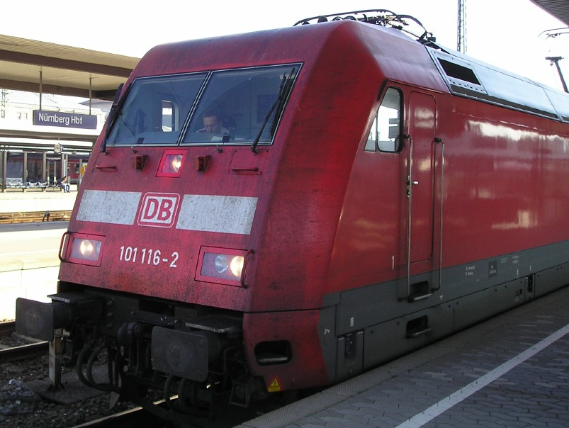 101 116 at Nürnberg Hbf